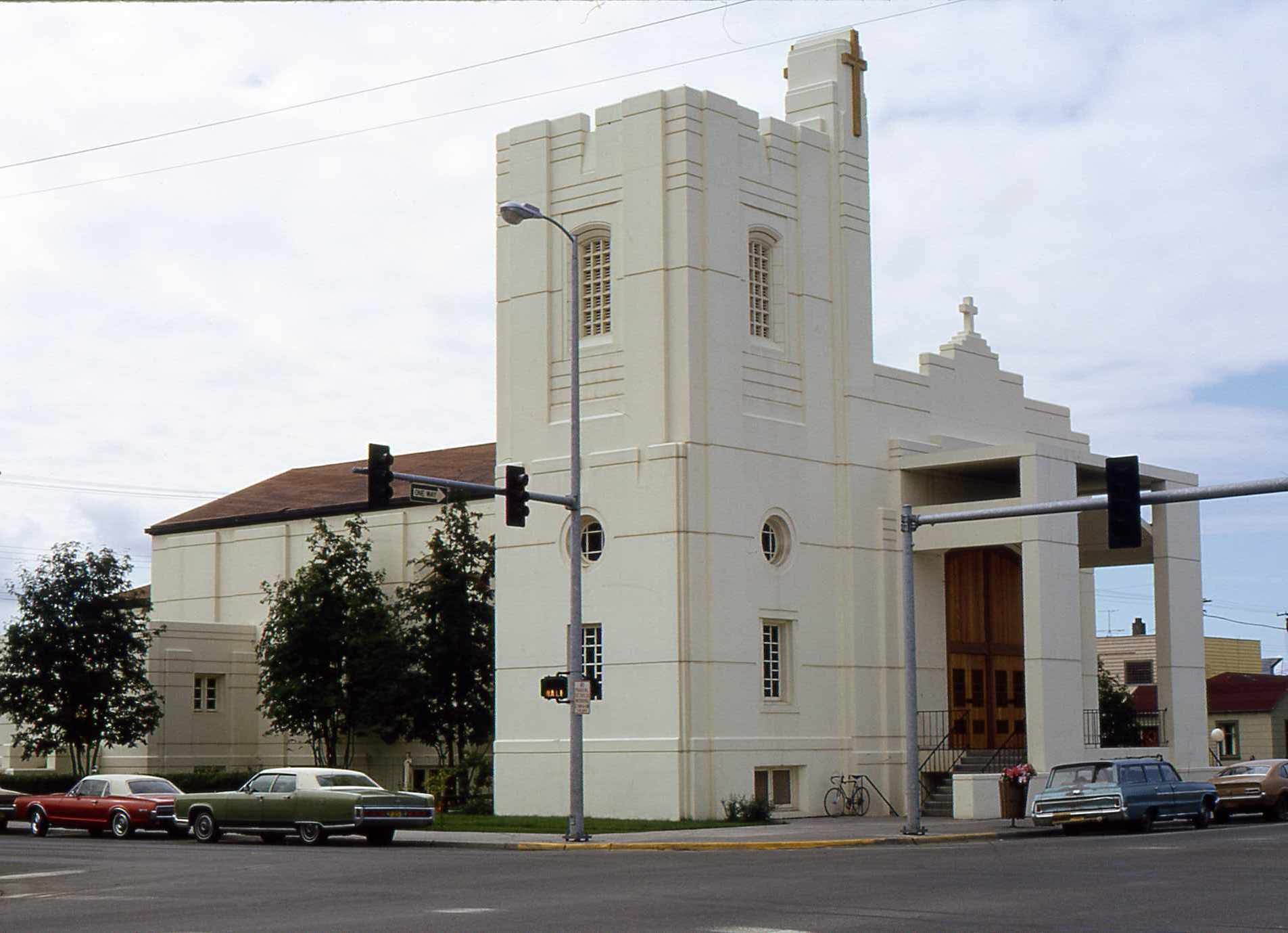 United States of America, Alaska, Anchorage. The Roman Catholic Cathedral of the Holy Family.